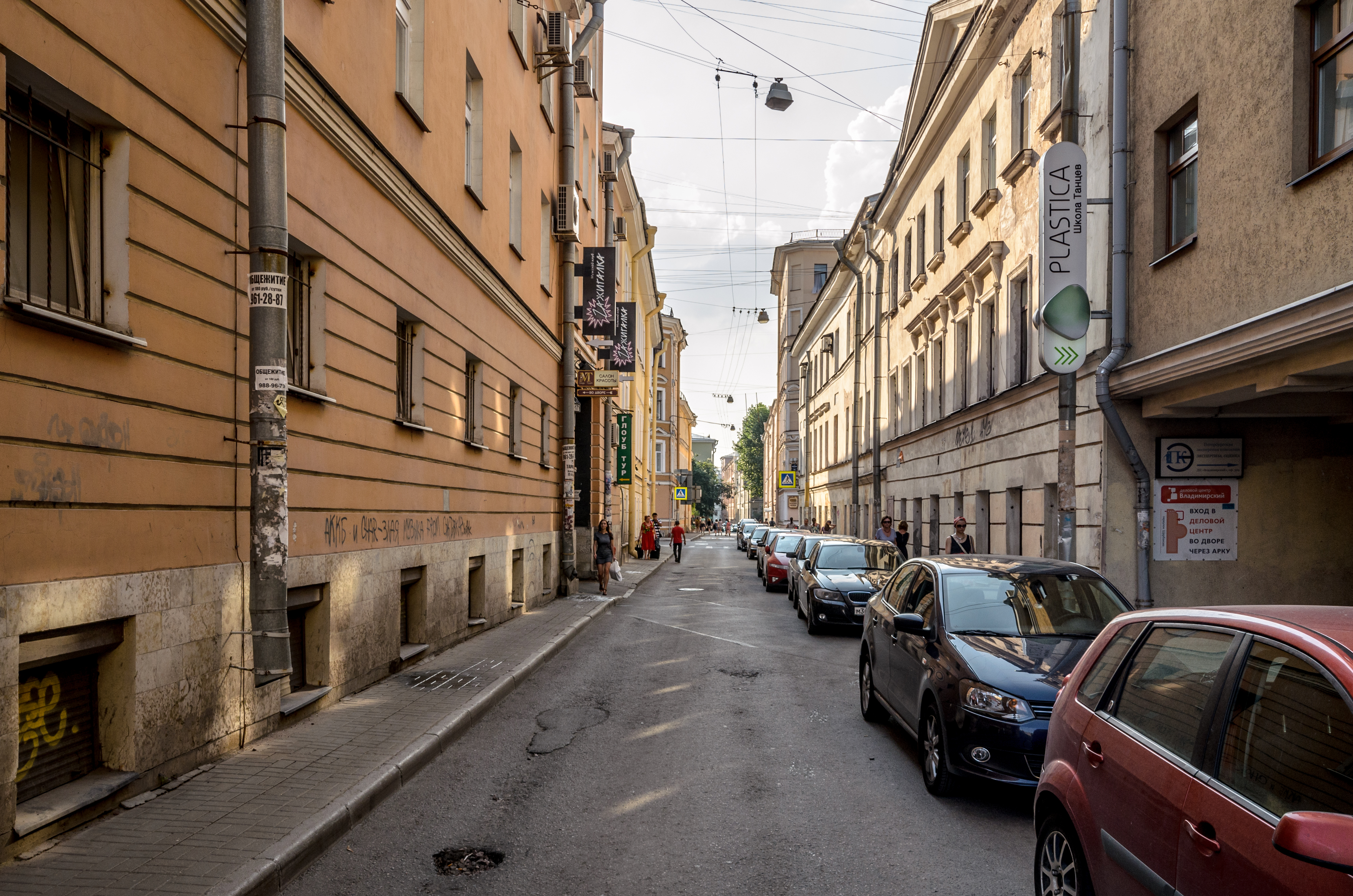 Scherbakov Lane in Saint Petersburg